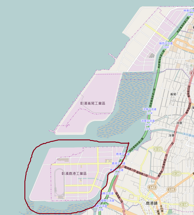 Changhua Coastal Industrial Park-Lukang